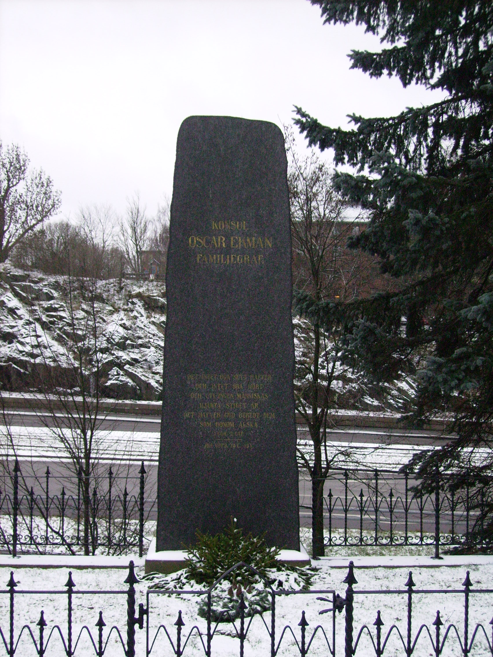 Picture of Oscar Ekmans grave in Gothenburg.